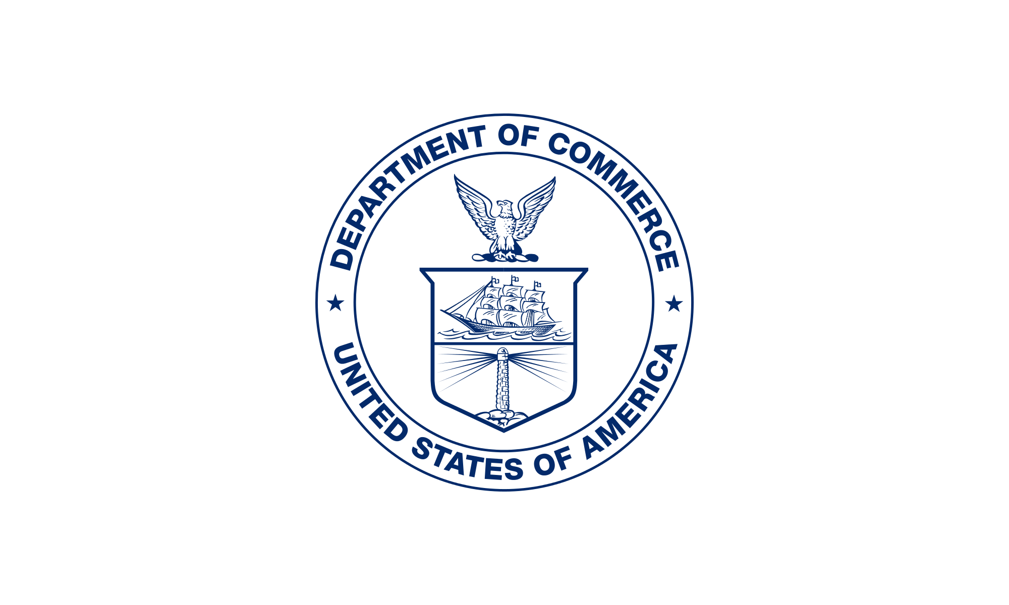 Flag of the United States Department of Commerce.